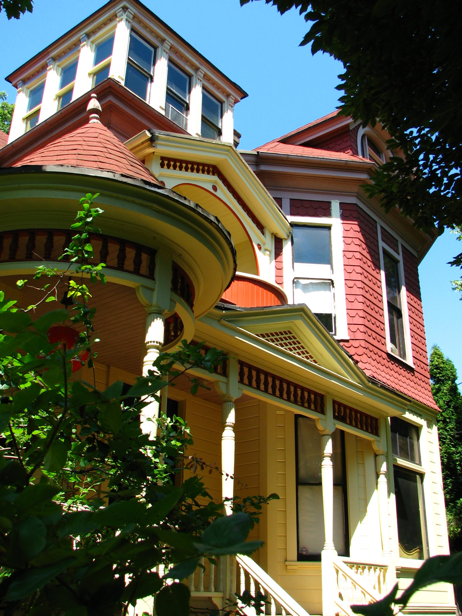 The historic Rachel Louise Hawthorne House (built 1892), located at 1007 Southeast 12th Avenue in Portland, Oregon, United States, is listed on the US National Register of Historic Places.